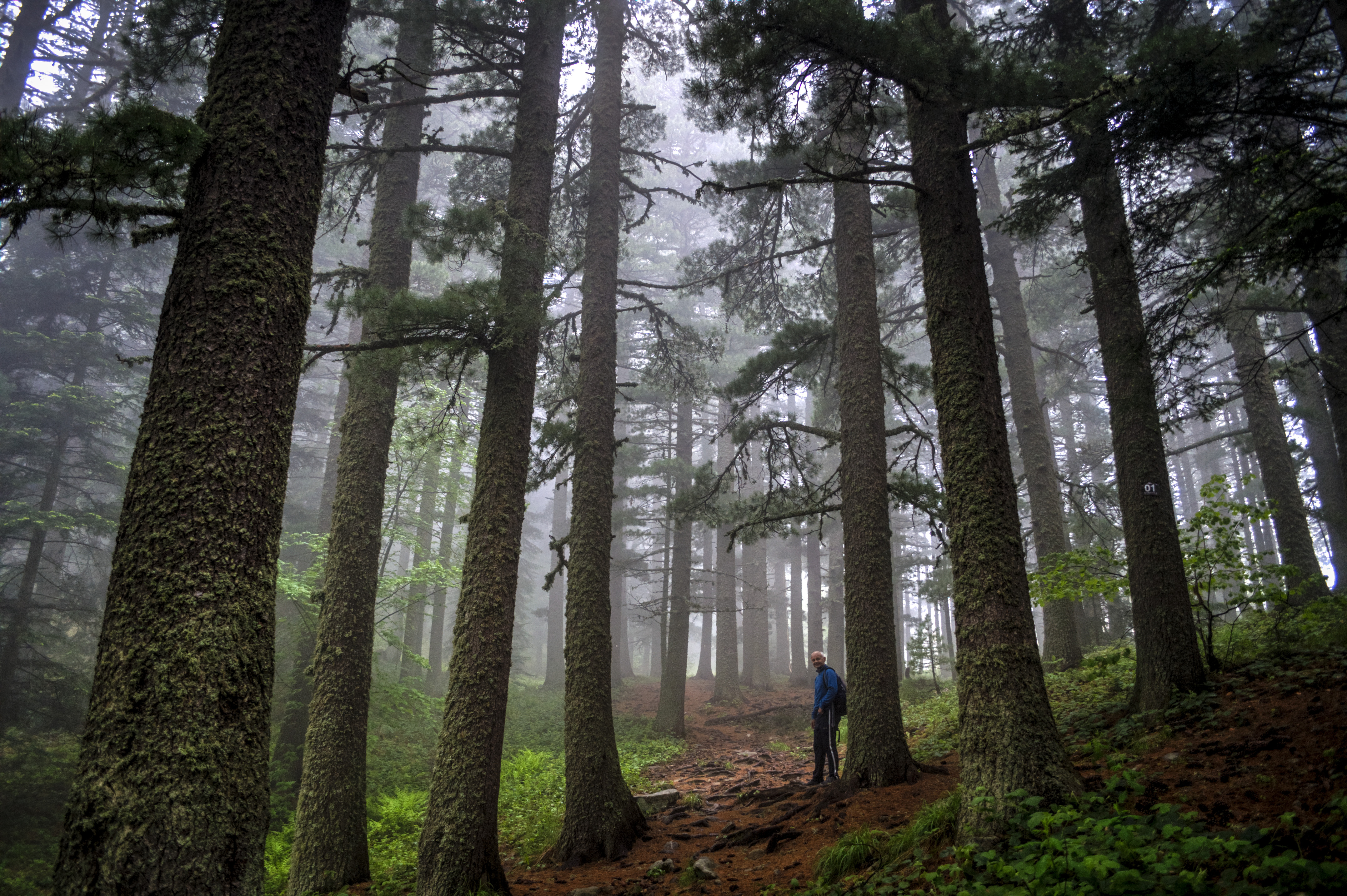 Macedonian Pine Pinus peuce forest, Baba Mountain, Macedonia